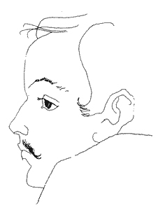 selfportrait